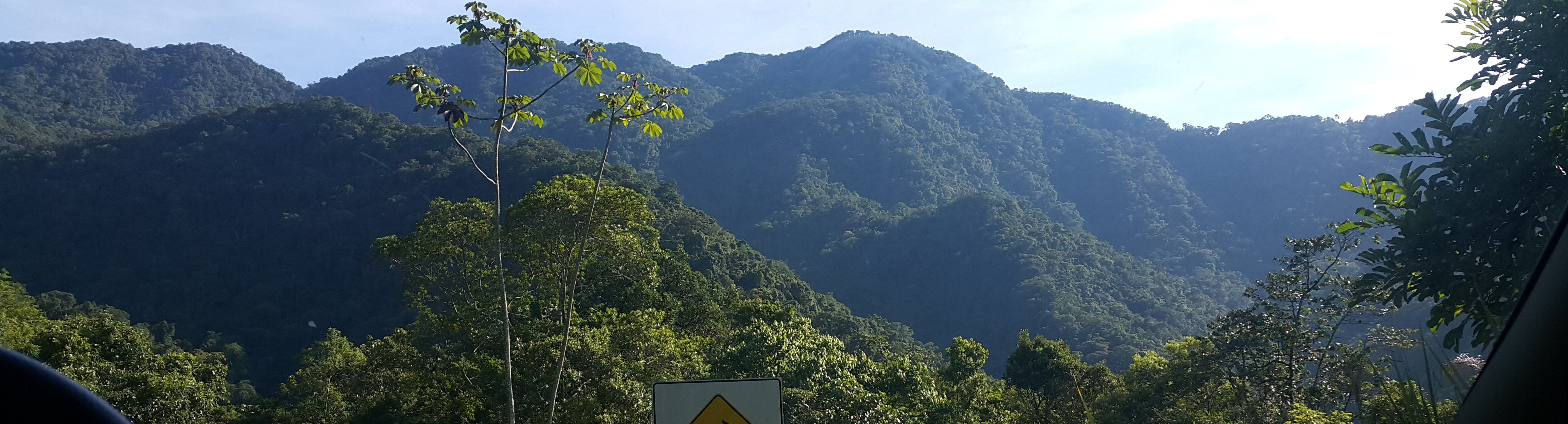 Part of the Serra do Indaiá seen from the mountainous stretch of the Oswaldo Cruz Highway. Serra do Mar State Park (Picinguaba core), Ubatuba, São Paulo, Brazil.